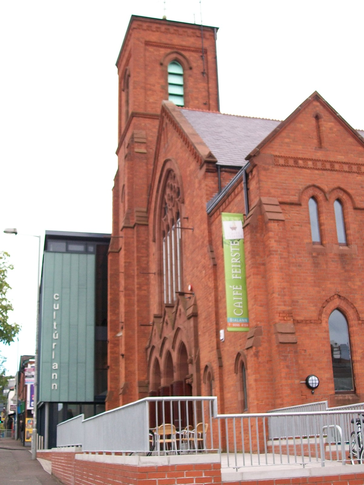 Cultúrlann McAdam Ó Fiaich on the Falls Road – This is a cultural centre housed in a former Presbyterian Church. It provides a wide variety of cultural activities, including art exhibitions, concerts and poetry readings in both English and Irish. The Loyalist Sandy Row community has expressed an interest in setting up a similar cultural centre in their own area of the city. - more at